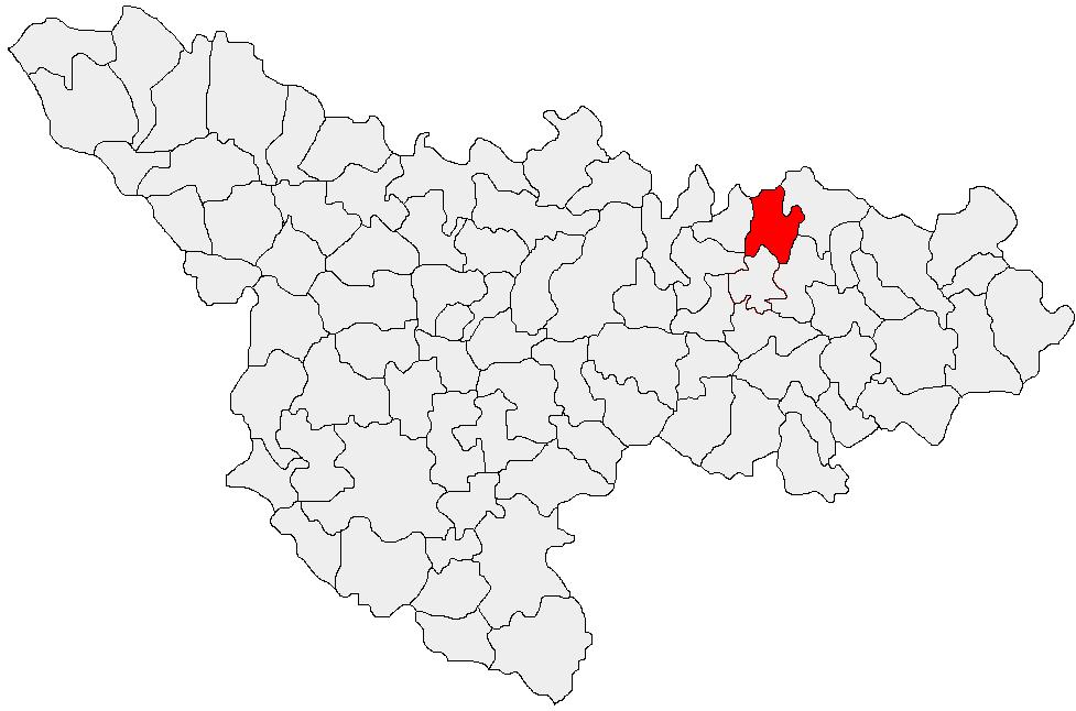 Bara jud Timis, a commune of the Timis judet, Banat, Romania